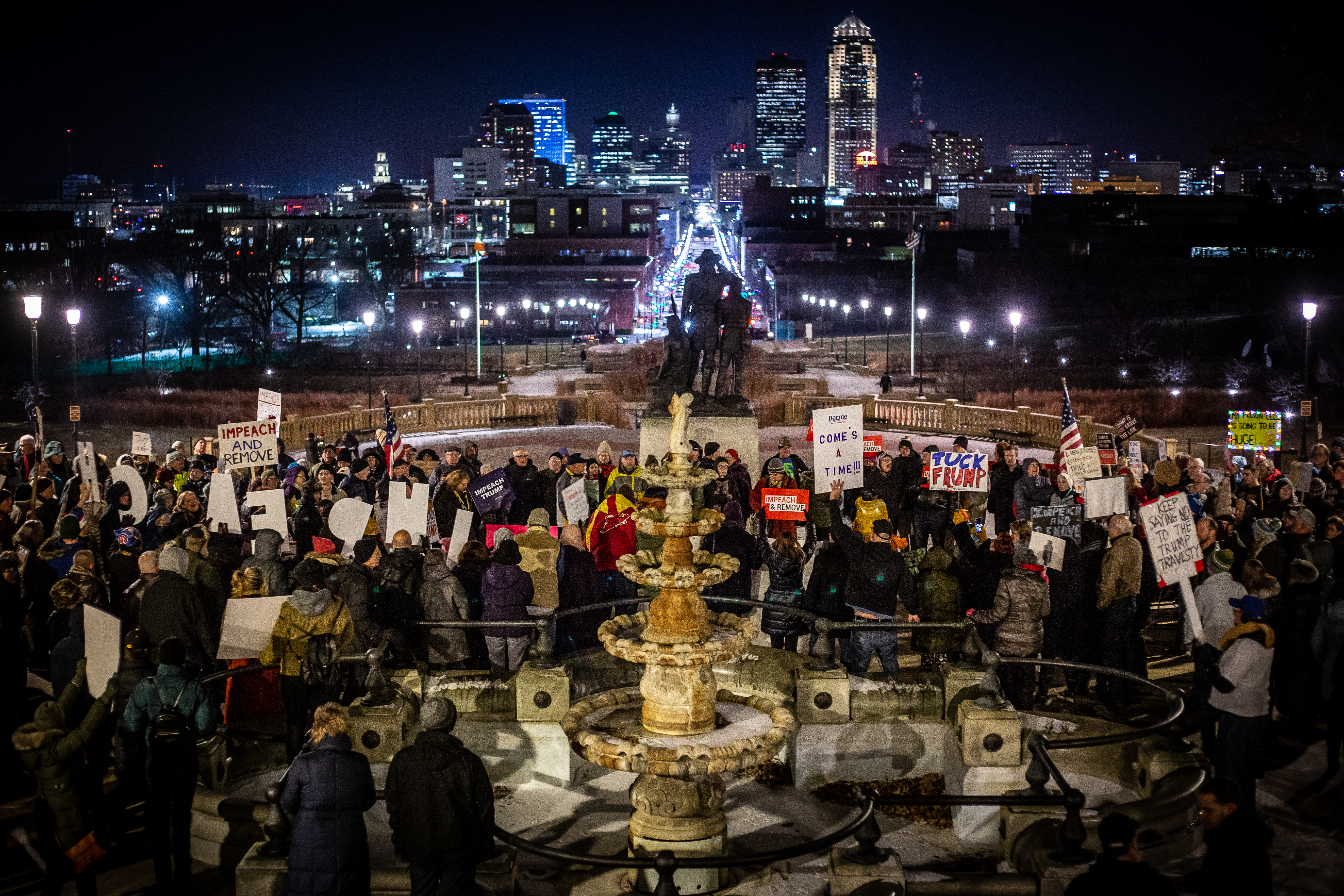 Hundreds of people gather in front of the Iowa State Capitol in Des Moines calling for the impeachment of Donald Trump. It was one of 600 such rallies across the country on the eve of the historic impeachment vote in the U.S. House of Representatives.